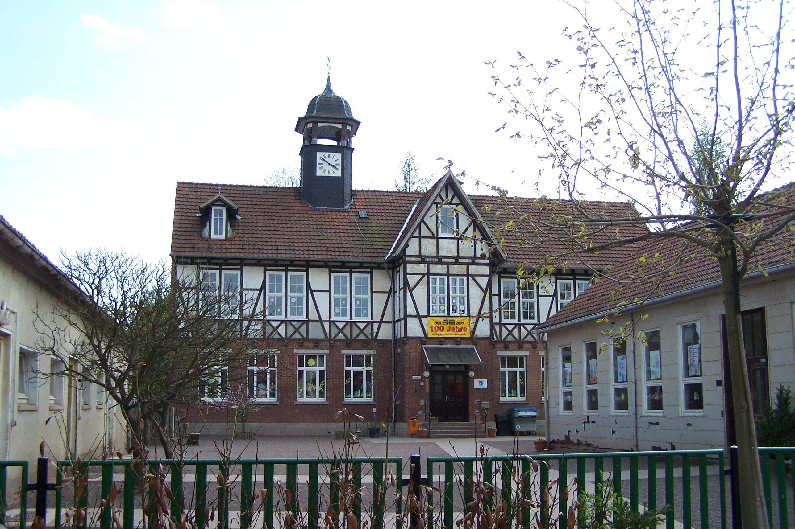 The old school building in Farnroda village.